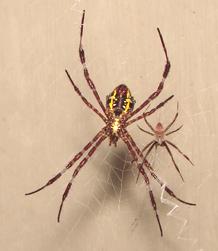 Male and female Argiope appensa I took it by my own back door, September 1